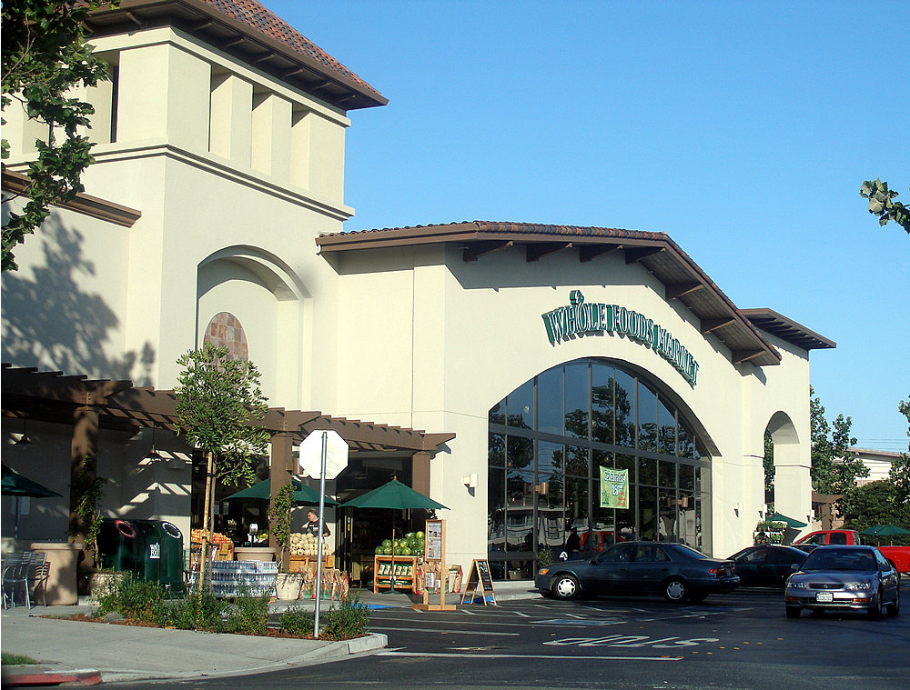 A Whole Foods Market supermarket, located in Redwood City.